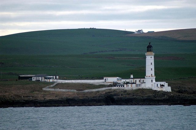 Coarsewall Lighthouse Coarsewall Lighthouse, image made from a inbound ferry approaching Loch Ryan